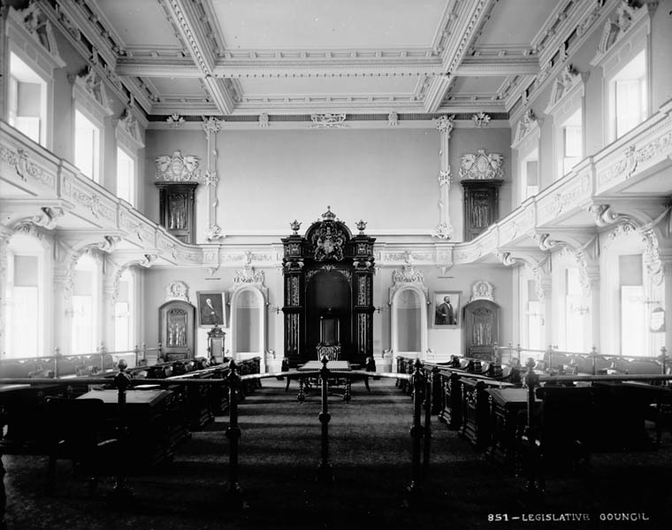 Room of the Legislative Council of Quebec